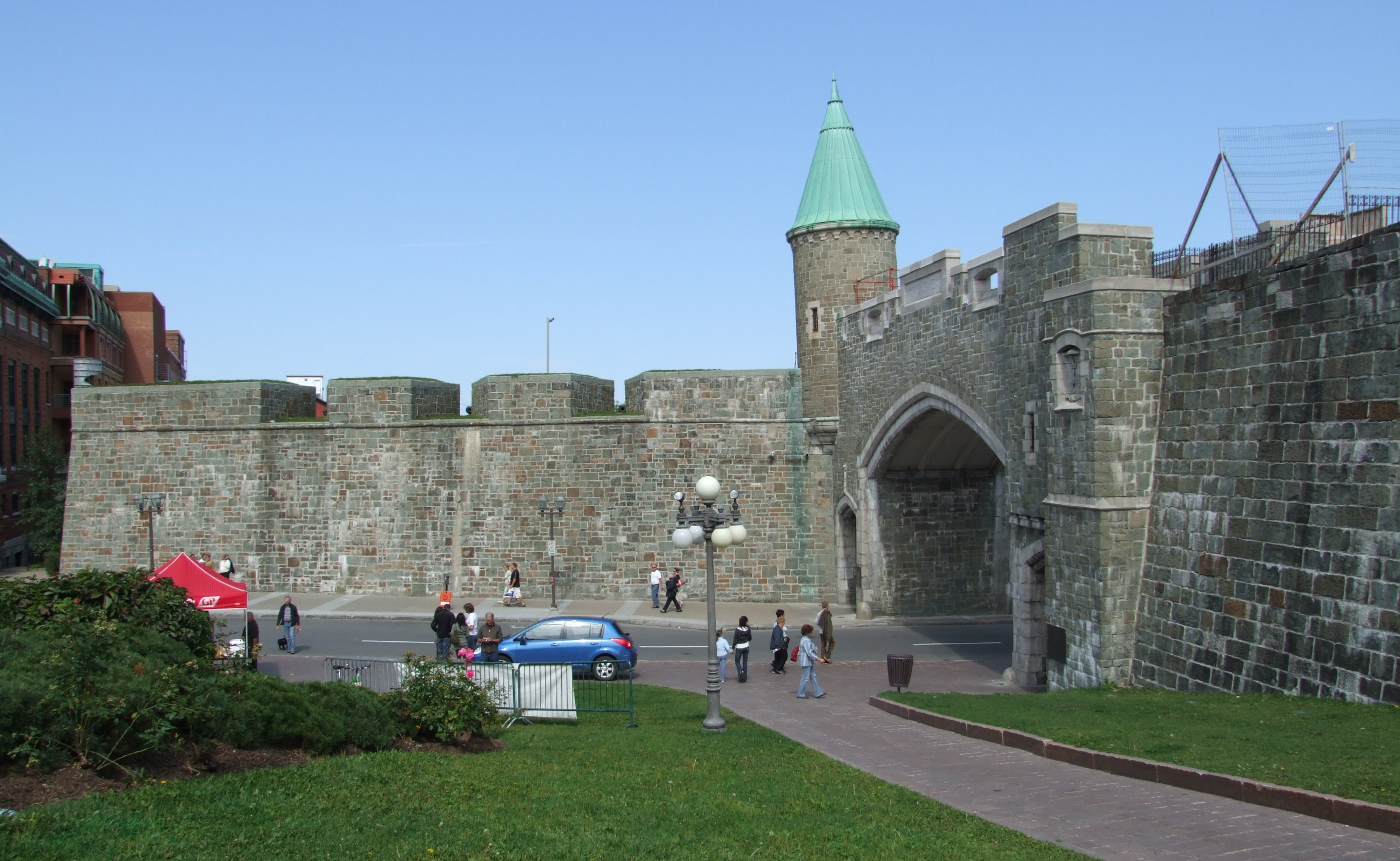 Saint-Jean gate, seen from outside, Québec, Quebec, Canada